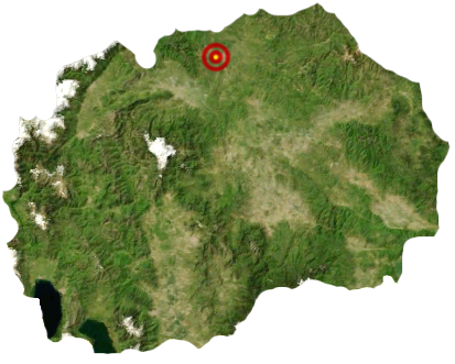 Location of Kumanovo city in the Republic of Macedonia